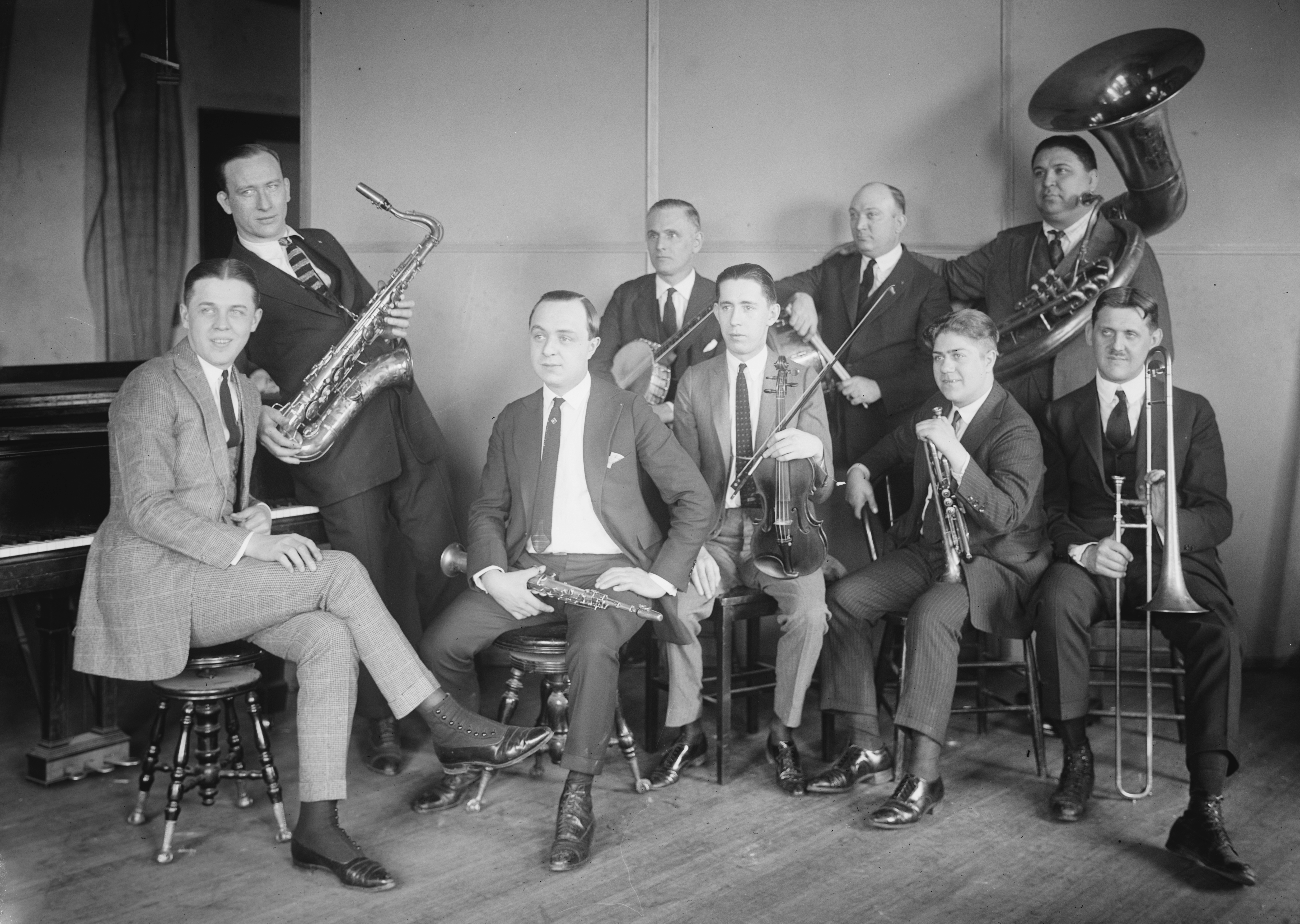 Isham Jones Orchestra. Jones is standing holding saxophone at left. Likely personnel based on discographies: Al Eldridge, piano; Al Malding, clarinet & saxophone; Charles McNeil, banjo; Artie Vanasec, violin; Joe Frank, drums; Louis Panico, cornet; John Kuhn, brass bass; Carroll Martin, trombone.